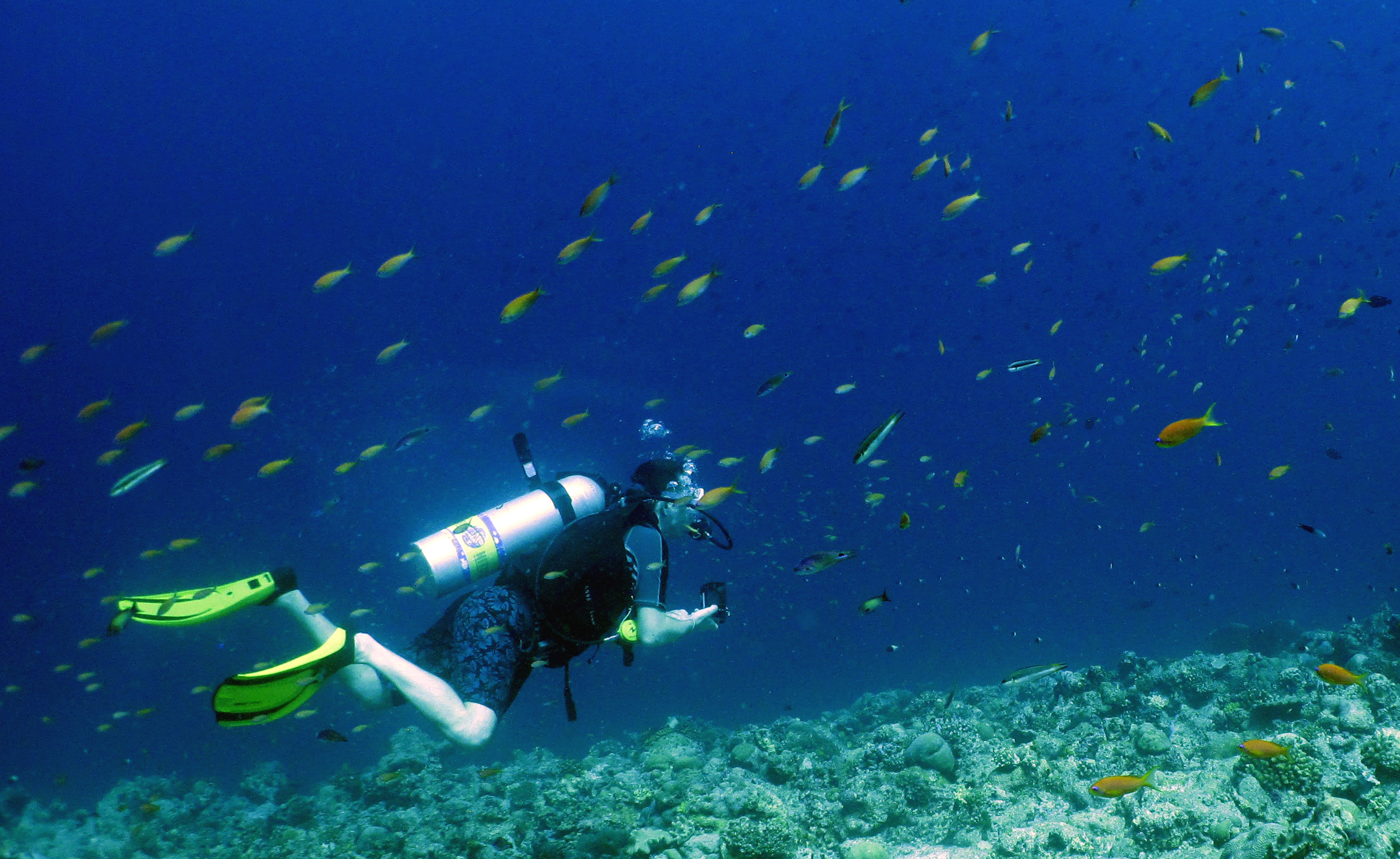 My buddy Swiss Philippe looking for the Manta's. * * * * For SLIDESHOW go to: Actions/View Slideshow (Hit Options for Speed & Bottom Right for Full Screen) To DOWNLOAD PHOTO go to: Actions/View All Sizes To ORDER PRINTS go to: Actions/Order Prints and More To ADD COMMENTS about this photo: Type into the Comments Box below and hit Post Comment To VIEW PHOTOGRAPHER'S OTHER WORK click: Photography & Equipment sponsored by: PLEASE NOTE - I take Photographs purely as a hobby so am happy to share them with anyone enjoys them or has a use for them. If you do use them an accreditation would be nice and if you benefit from them financially a donation to would be really nice.